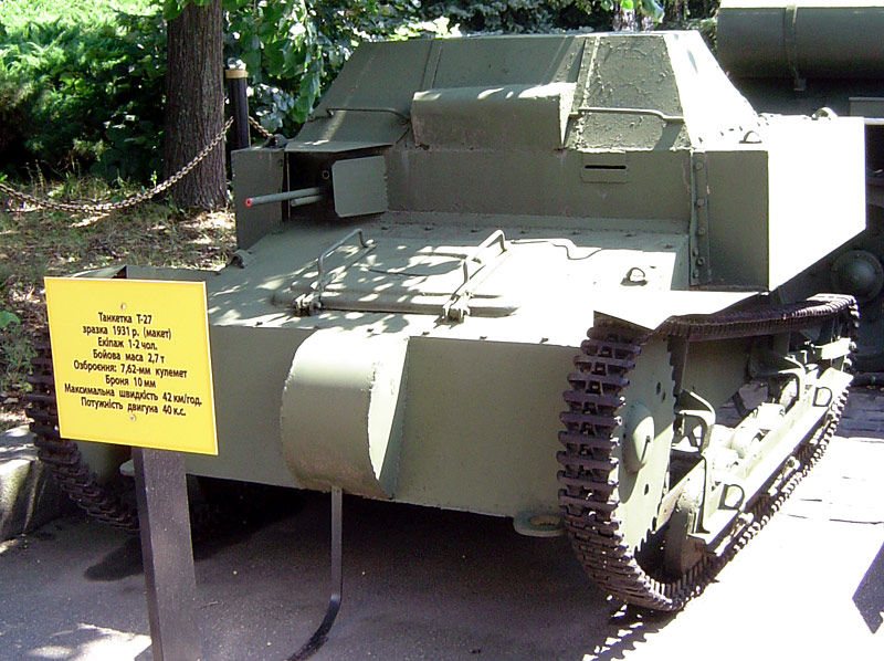 T-27 tank on display near the Museum of the Great Patriotic War, Kiev, Ukraine.